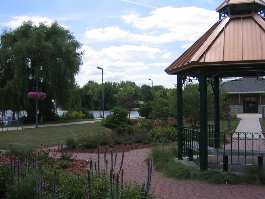 Lake Cravath, located in Whitewater, Wisconsin, has a newly developed lakefront.